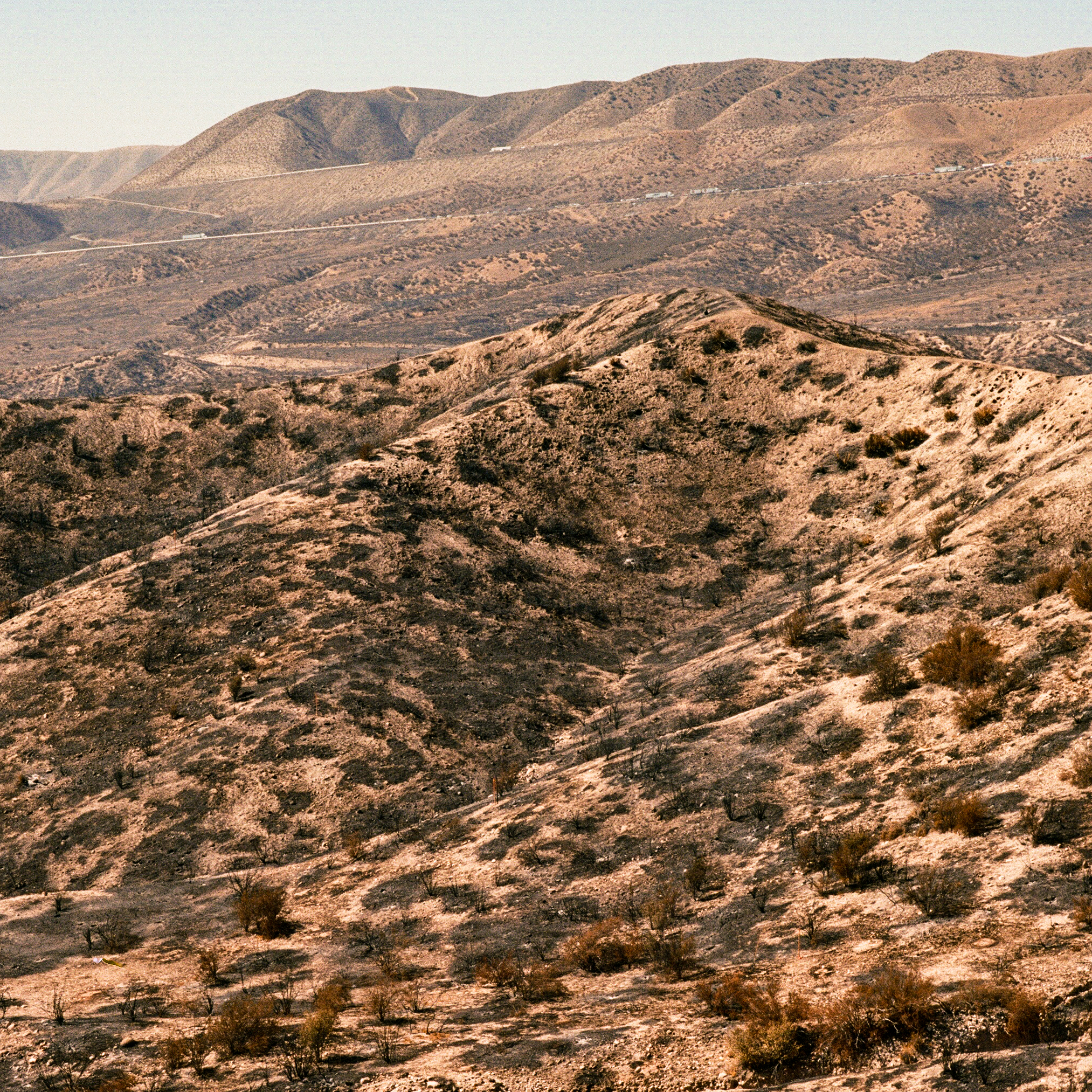 The San Bernardino National Forest after the Blue Cut Fire in the summer of 2016 along the Freeway 138.